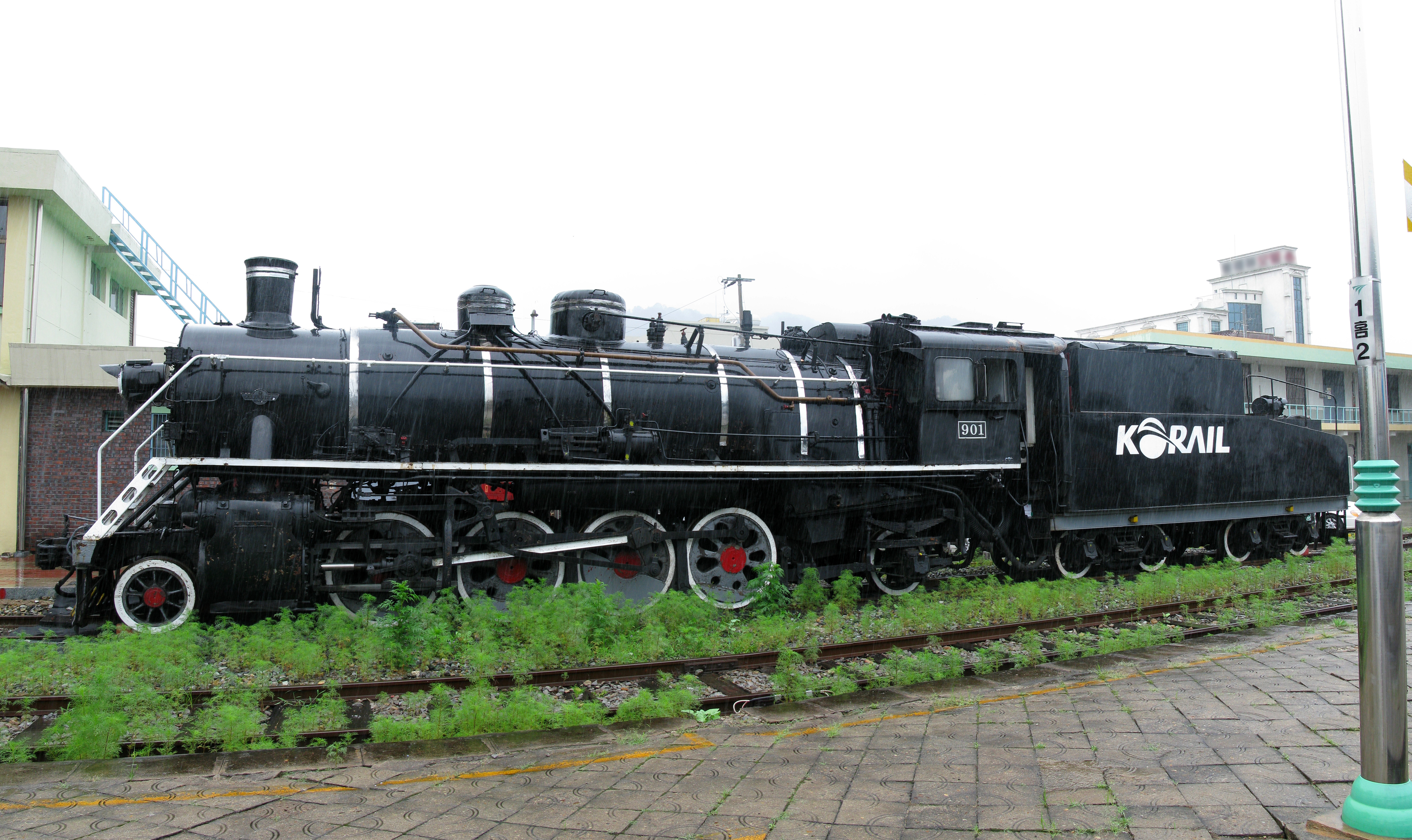 Steam Locomotive 901